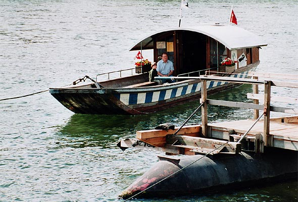 Basel ferry that crosses the Rhine River